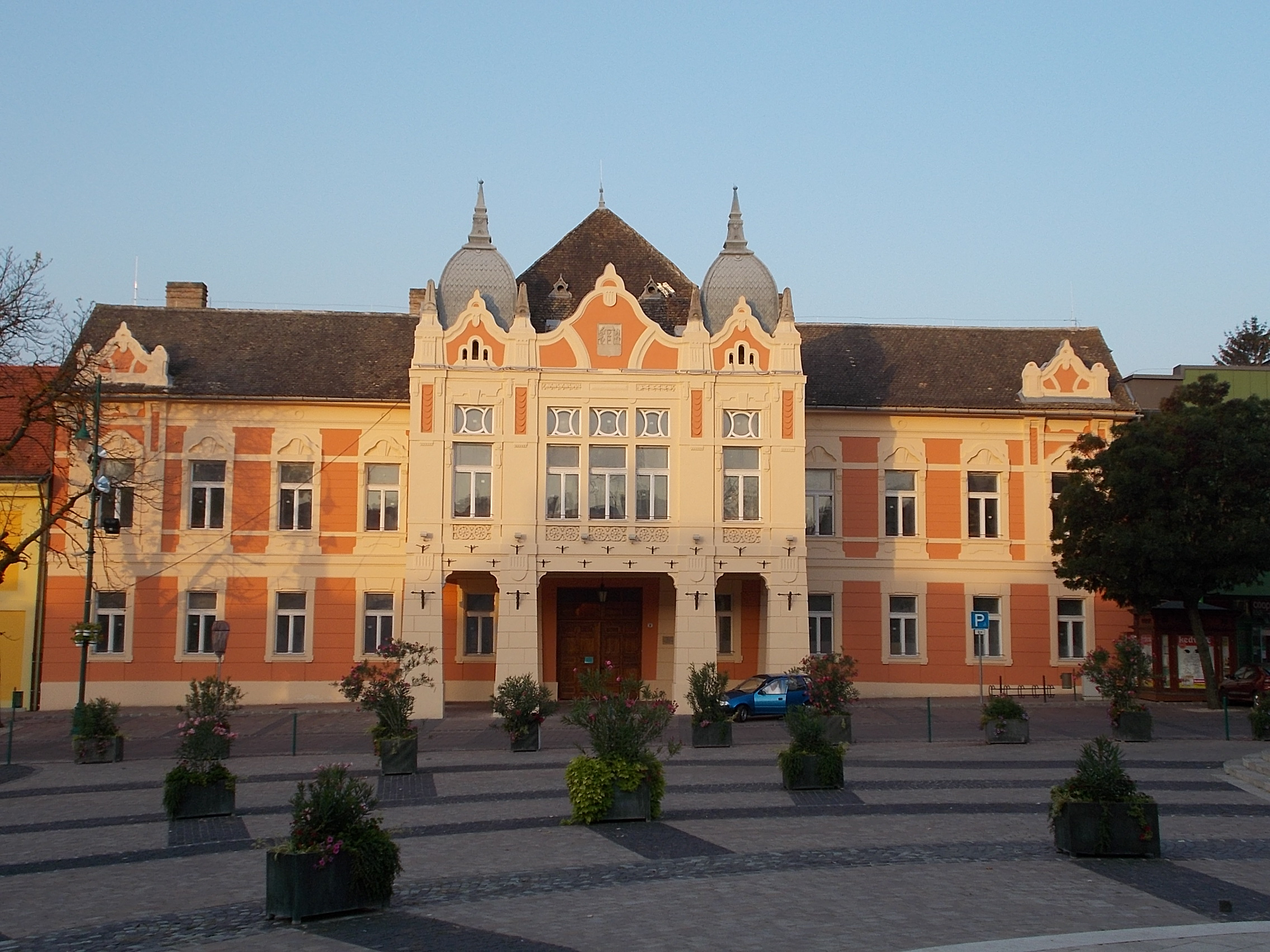 Town Hall. Built by Károly Tormay in 1846. - King Béla Square, Szekszárd, Tolna County, Hungary.